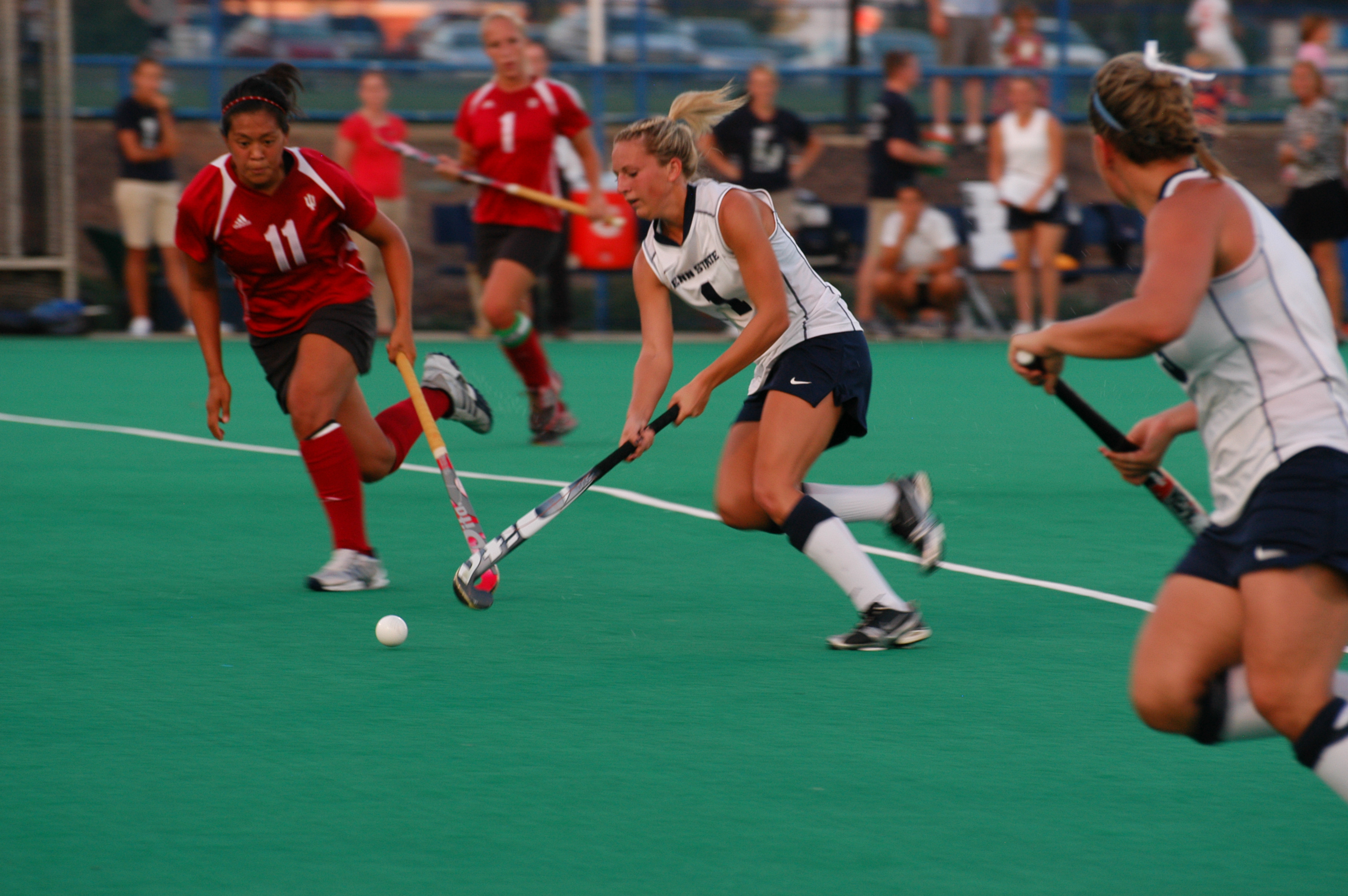 The Indiana Hoosiers vs. the Penn State Nittany Lions during a Big Ten field hockey game in University Park, Pennsylvania.